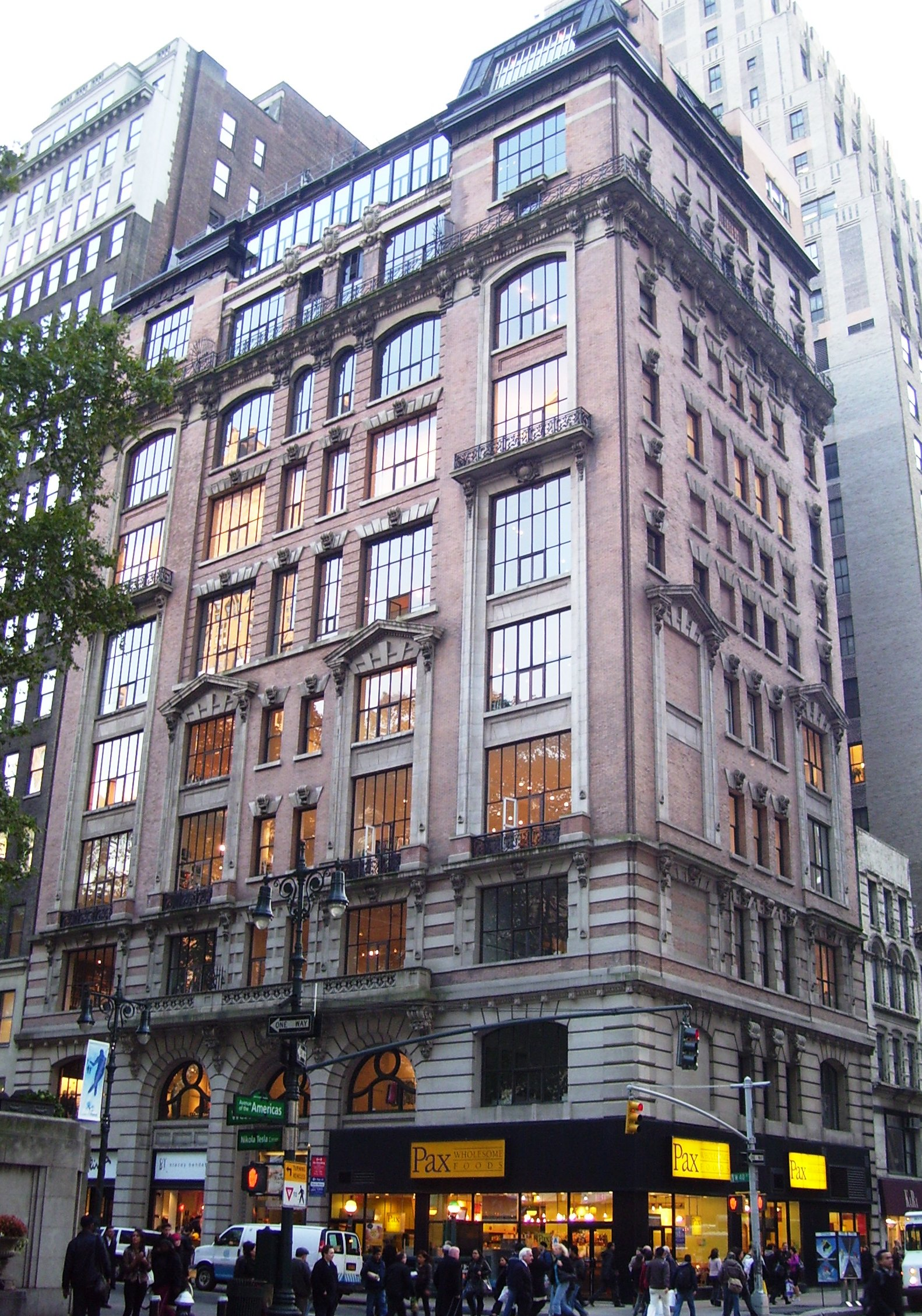 Bryant Park Studios at 80 West 40th Street on the corner of Sixth Avenue (Avenue of the Americas) was built in 1900-01 as working spaces for artists, and was designed by Charles A. Rich in the French Beaux-Arts style. It was designated a New York City landmark on December 13, 1988. (Source: NYCLPC Designation Report)